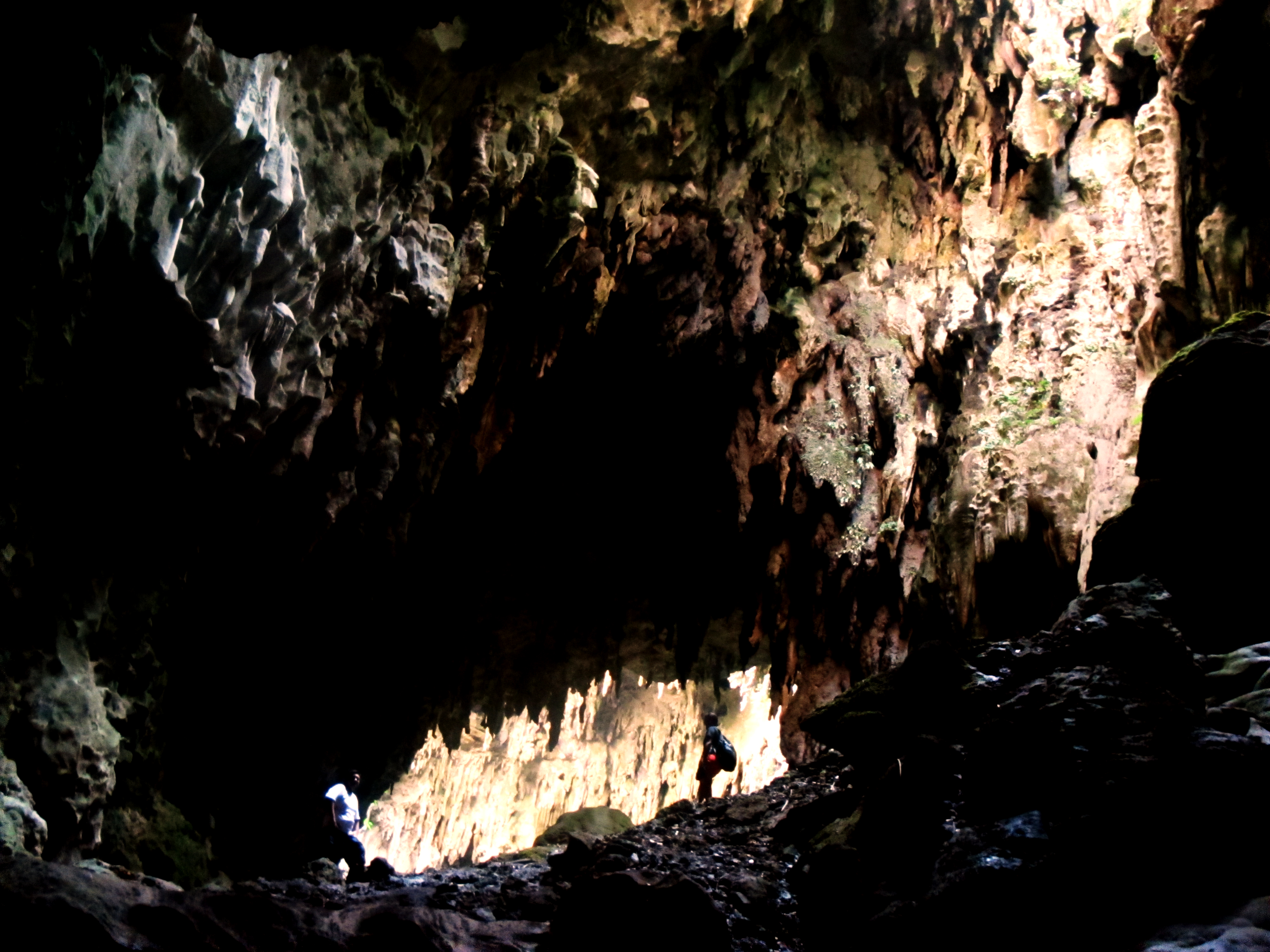 Inside the firth chamber of Callao Cave in Peñablanca, Cagayan. Photo was taken during Schadow1 Expeditions mapping project in Cagayan Valley.